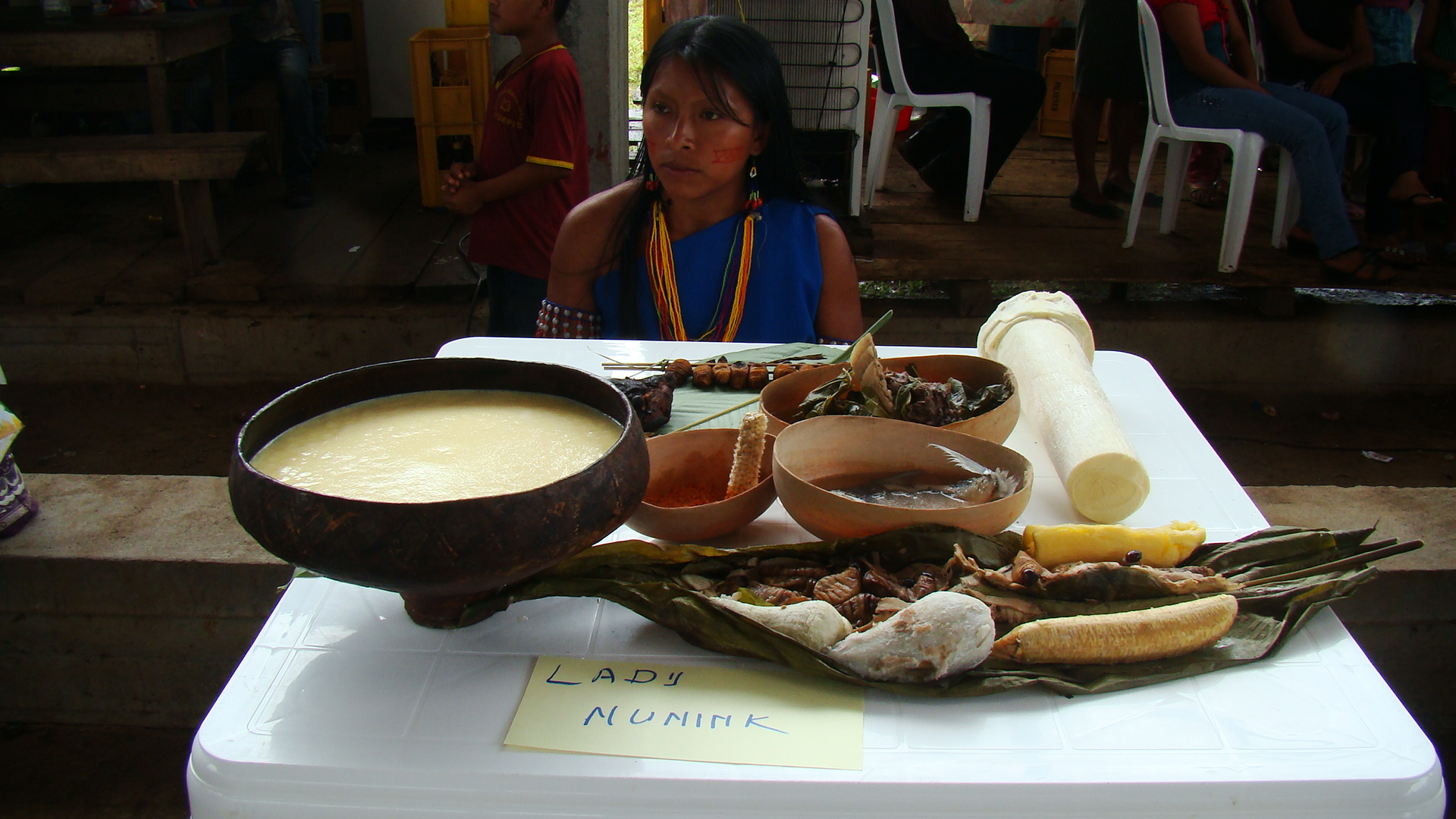 Chicha and ayampaco- traditional food of Shuar in Logroño, Ecuador